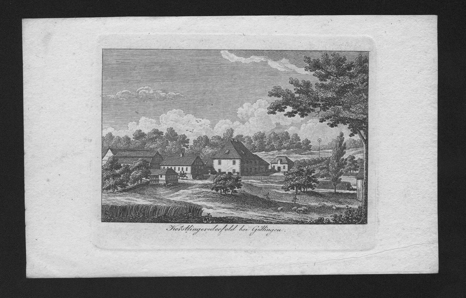 Kerstlingeroderfeld ca. 1820.